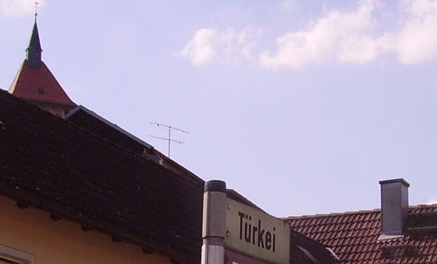 Hollfeld, Germany